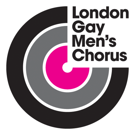 The official logo of the London Gay Men's Chorus